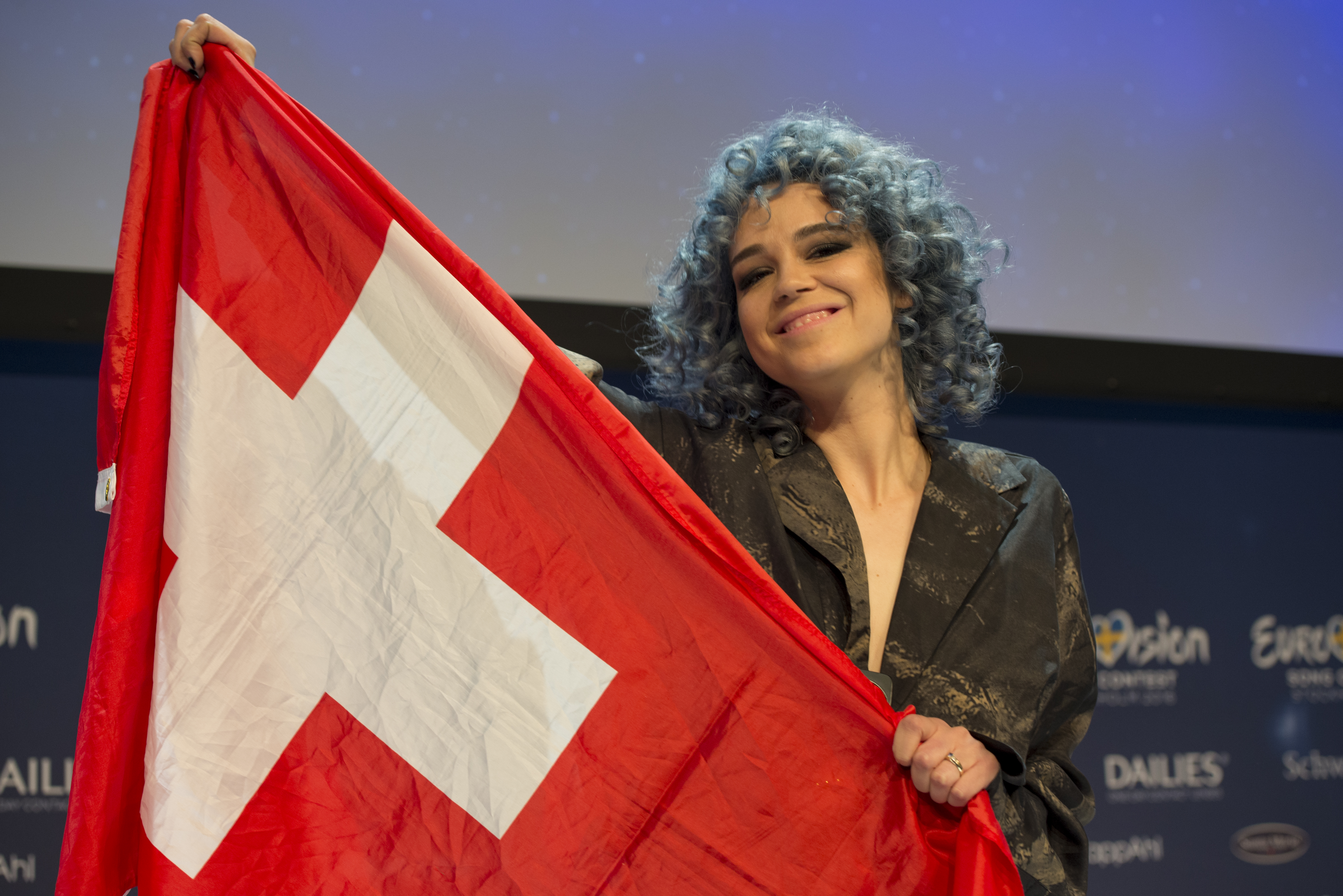 Rykka at a Meet & Greet during the Eurovision Song Contest 2016 in Stockholm. (Help translate this text)